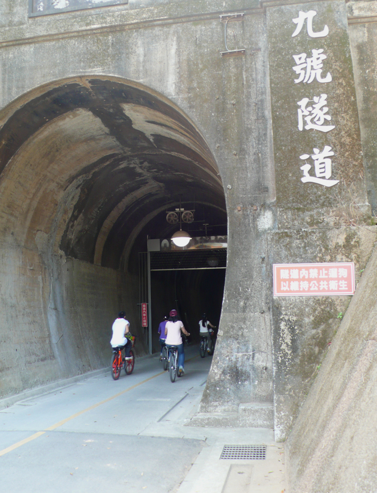 Houli Bikeway No.9 Tunnel